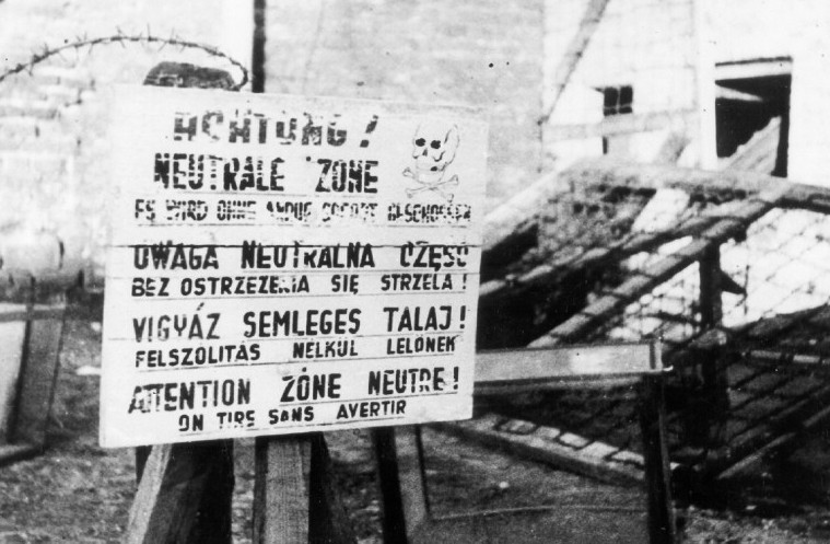 WarsawUprising: Magyar units belonging to the German army, declared their neutrality towards Warsaw Insurgents. Hungarians refused to take part in German invasion of Poland in 1939 and liquidation of Warsaw Uprising. See text below